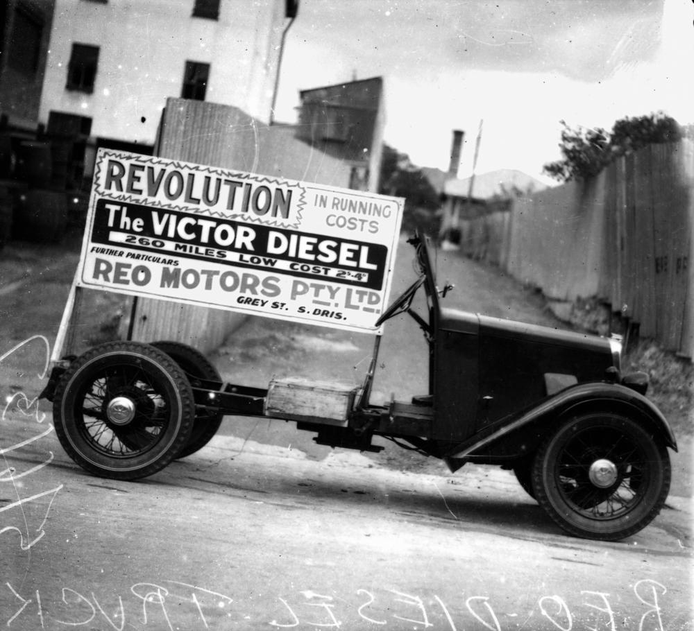 Jowett Eight commercial chassis with diesel engine, 1937 This Jowett is probably the smallest diesel powered vehicle ever sold in Australia for use on the road. The Jowett Eight commercial chassis was normally fitted with a 946cc flat twin petrol engine, but this example is fitted with the optional 1 litre flat twin Coventry Victor diesel engine for real smell-of-an-oily-rag fuel economy. Victor diesel engines were also used for powering electric generator sets in rural Queensland. The attached advertising board shows the vehicle was sold by Reo Motors of Grey Street, South Brisbane, distributors of the then-popular American Reo truck, and indicates the exceptional economy of operation buyers could expect. A van or utility body to meet the customer's requirements would be fitted by a local company.